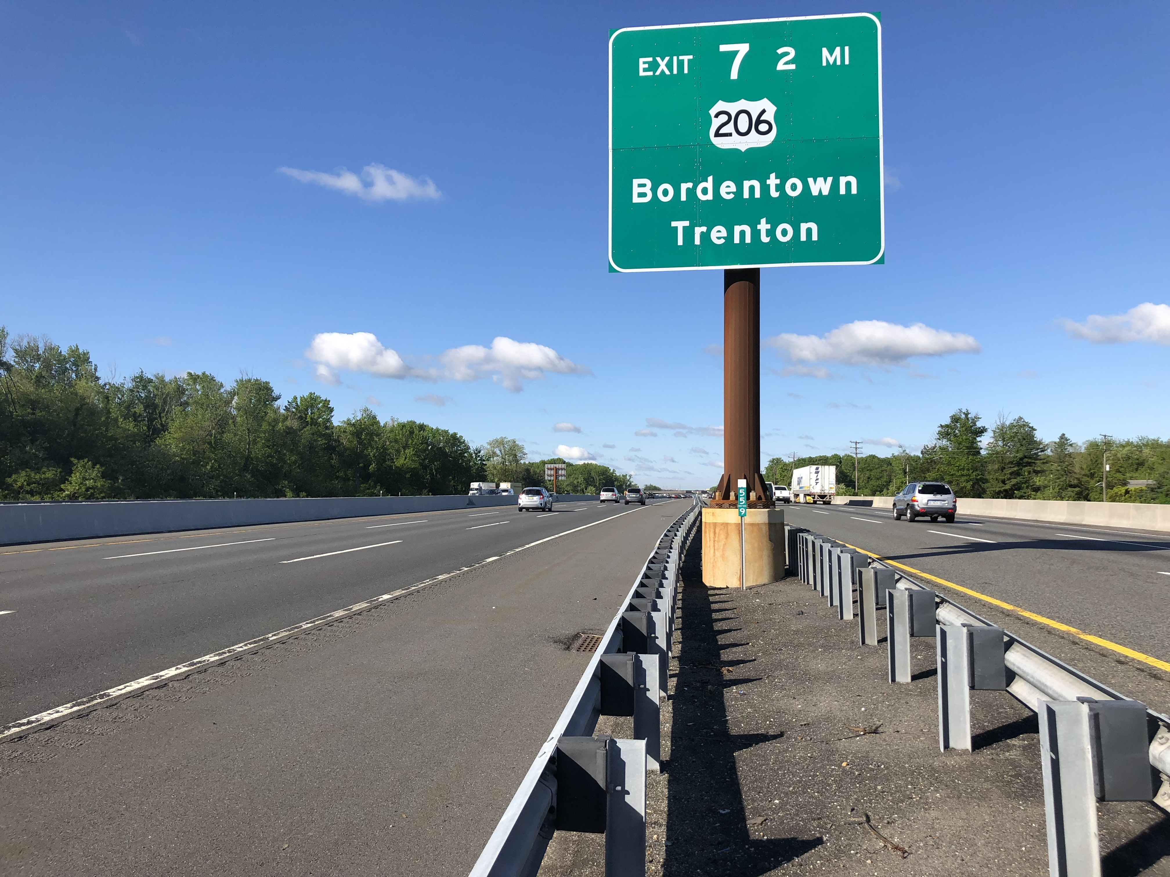 View south along Interstate 95 (New Jersey Turnpike) 2 miles north of Exit 7 in Chesterfield Township, Burlington County, New Jersey